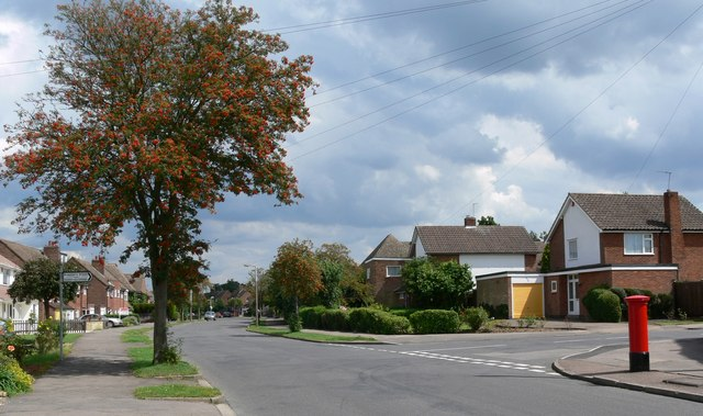 Ash Tree Road, Oadby Turn right along Coombe Rise to reach Beauchamp College.